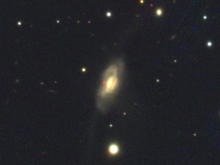 Color image of ARP 187 created by the stacking of i, r and g filter images provided by PanSTARRS-1 archive.